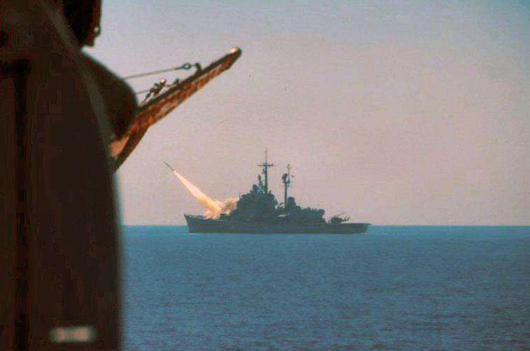 Italian former missile cruiser Andrea Doria (553) while launching a Terrier a/a missile during an exercise off Sardinia in 1985 (picture taken from the Grecale F-571 frigate)